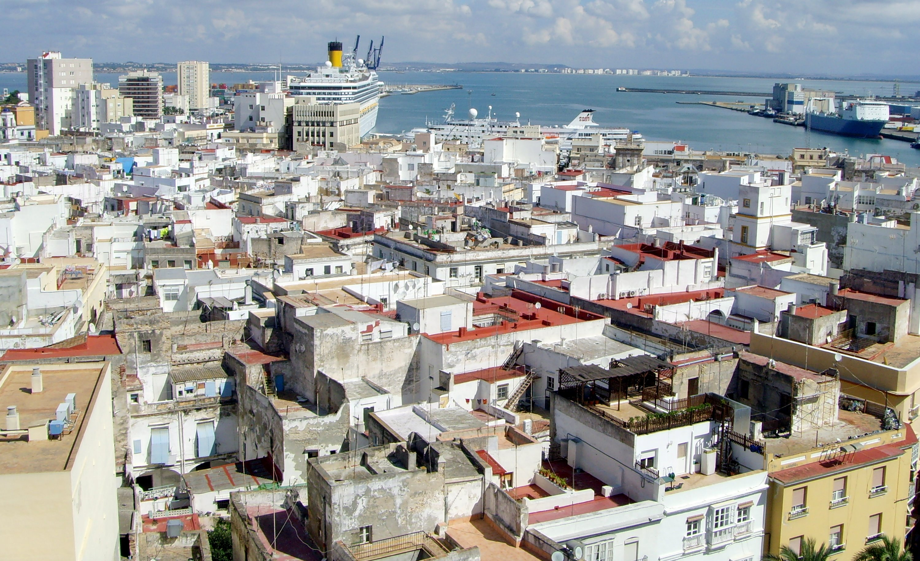 Cádiz, Spain (harbour)